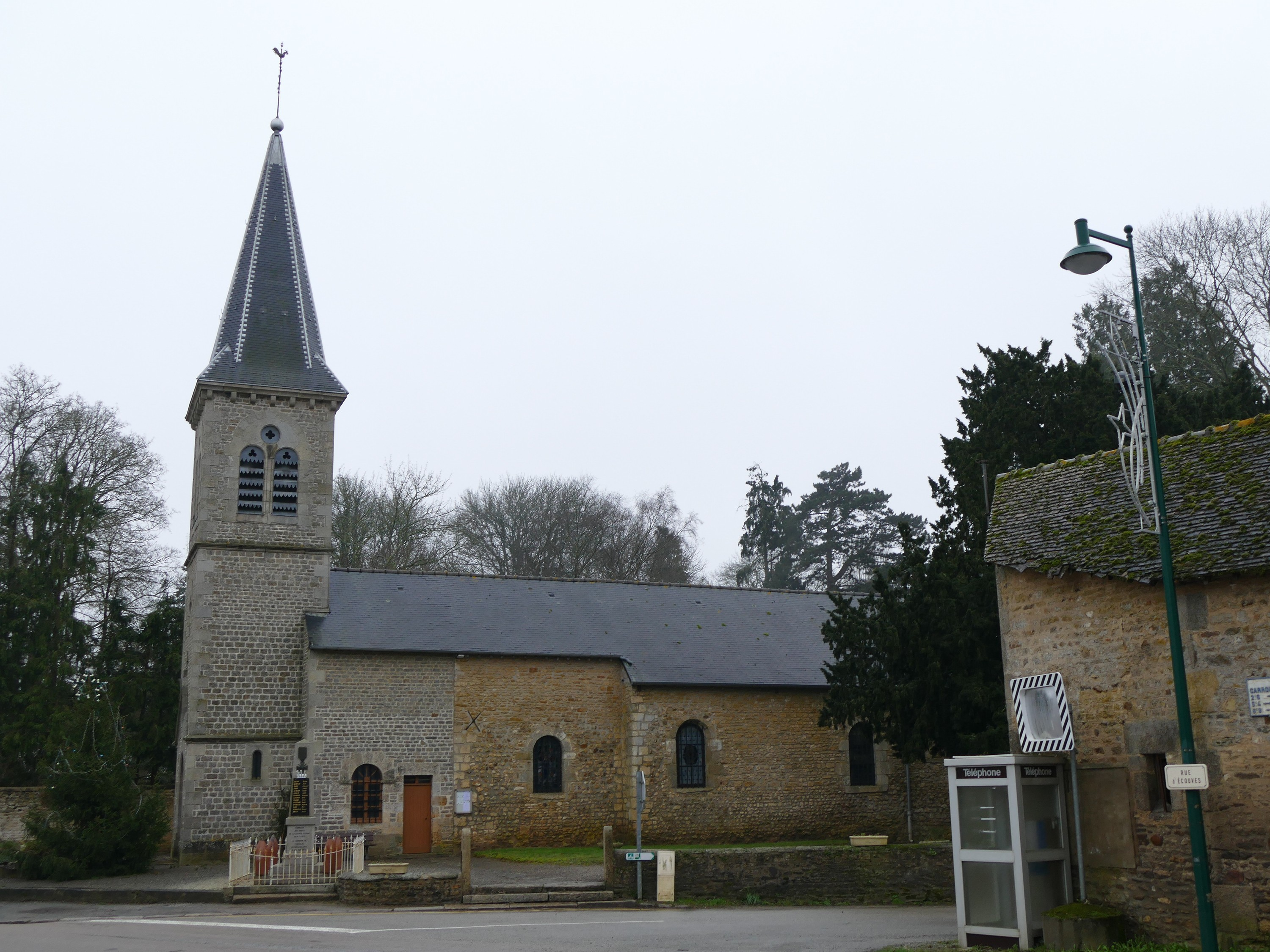 Saint-Sulpice's church in Cuissai (Orne, Normandie, France).